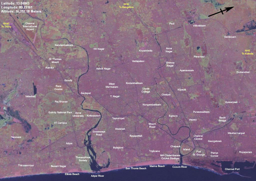 Screenshot from NASA WorldWind. Photoshopped annotations by User:Brhaspati.